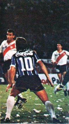 11 de maio de 1988 River Plate 3 – 1 Grêmio Monumental de Nuñez, Buenos Aires (Argentina) 21:30 h (UTC-3) River Plate: Pumpido; Borelli, Gutiérrez, Ruggieri e Erbín (Enrique); Troglio, Corti e Palma; Alzamendi, Da Silva e Caniggia. Técnico: Carlos Griguol. Grêmio: Mazarópi; Alfinete, Astengo, Luís Eduardo e Aírton; Amaral, Bonamigo e Cuca; Valdo, Lima e Jorge Veras (João Antônio). Técnico: Otacílio Gonçalves.